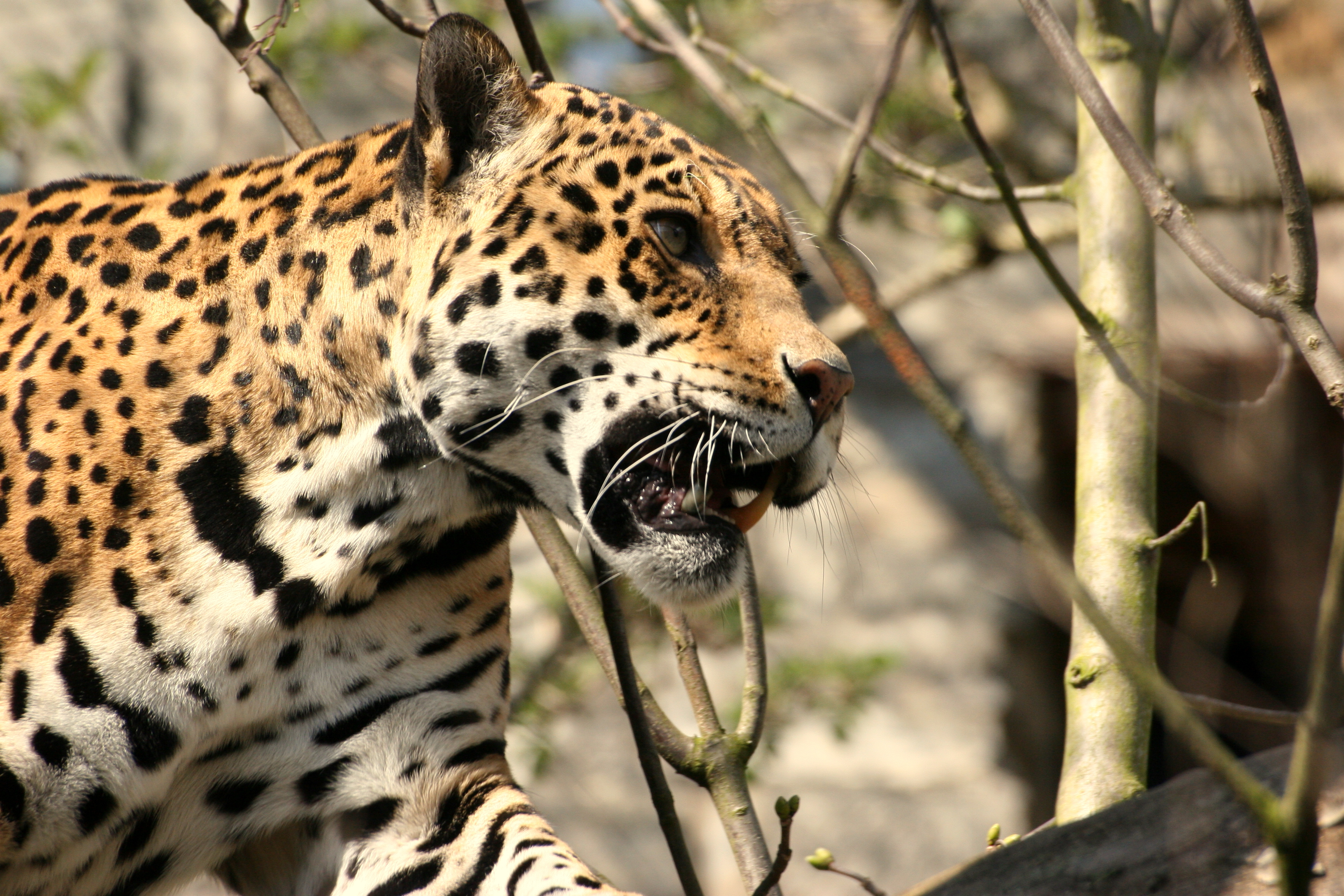 Jaguar in Edinburgh Zoo